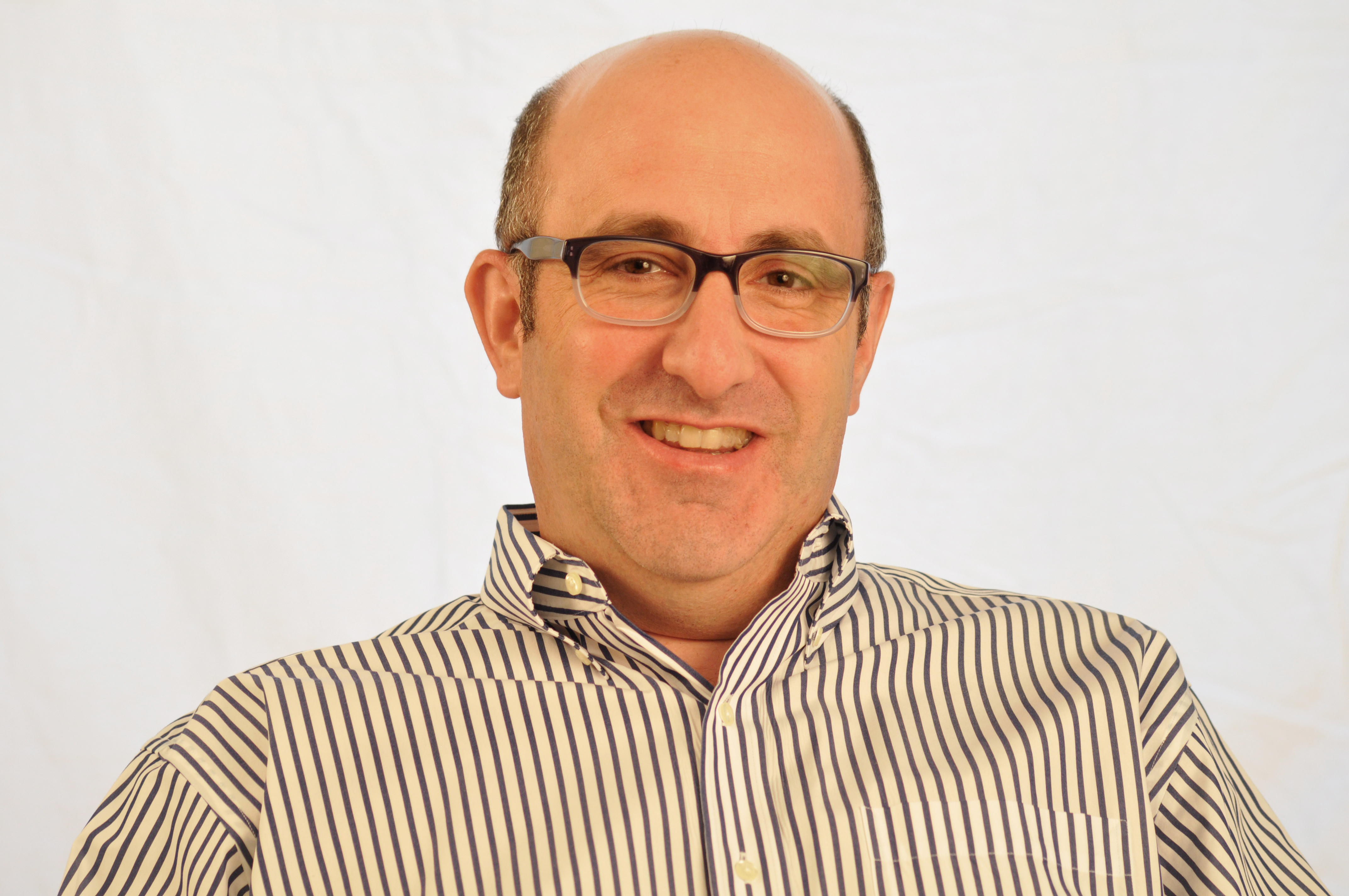 Photo of Jonathan Shurberg